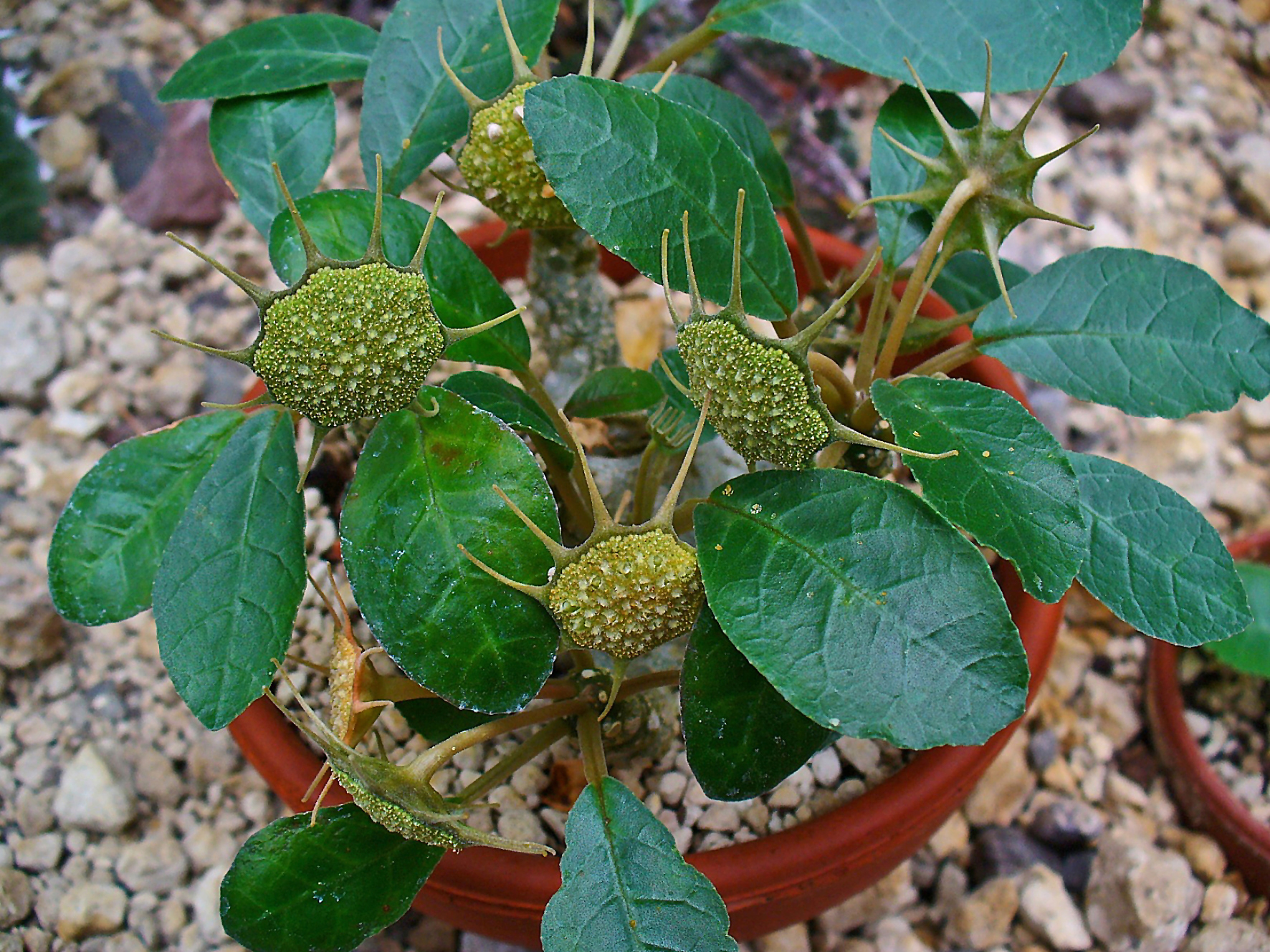 Dorstenia foetida, Moraceae, Foetid Dorstenia, habitus; Botanical Garden KIT, Karlsruhe, Germany.